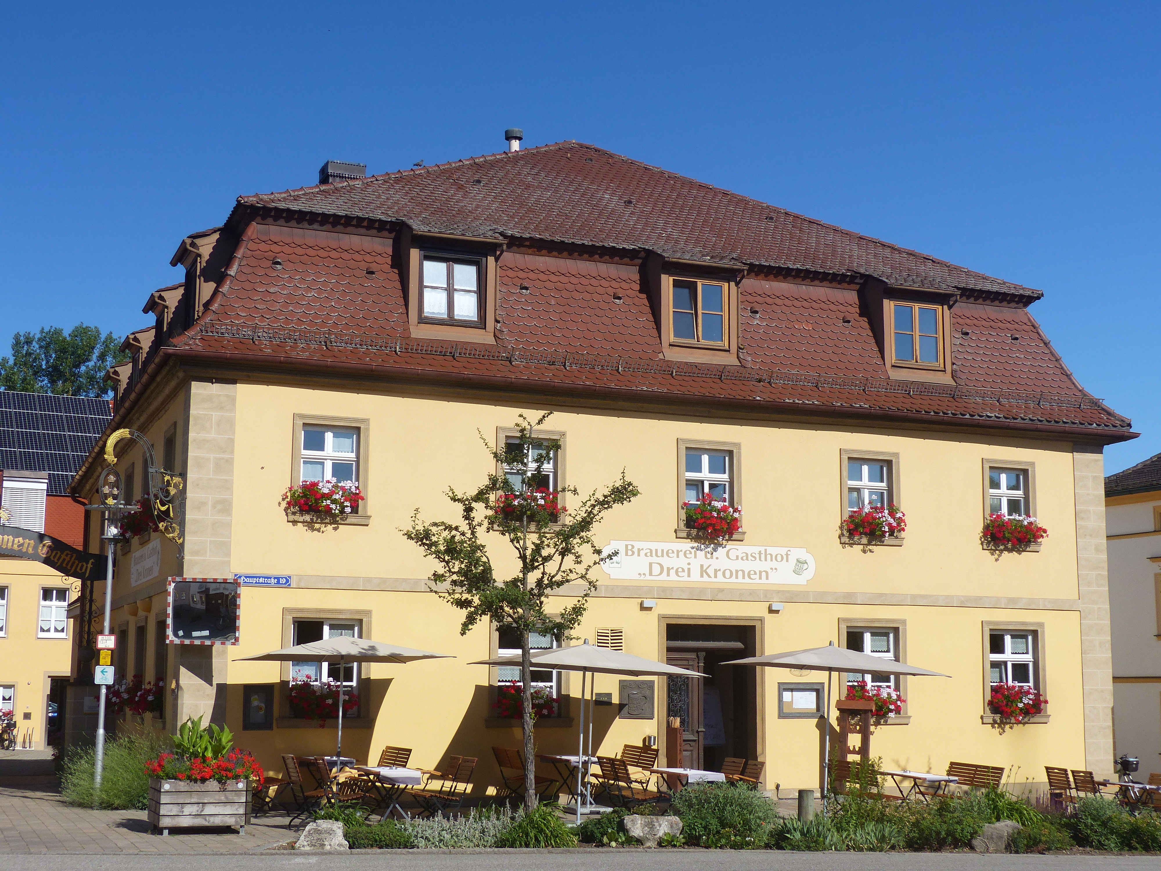 The former Amtshaus (official residence) of the Amt Memmelsdorf, an administrative district of the Prince-Bishopric of Bamberg.